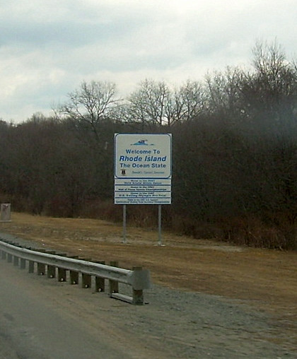 Rhode Island state welcome sign, along Interstate 95, entering from Connecticut.